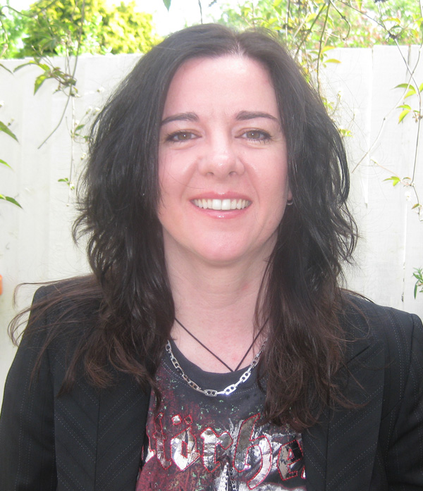 portrait of radio presenter Leona Graham